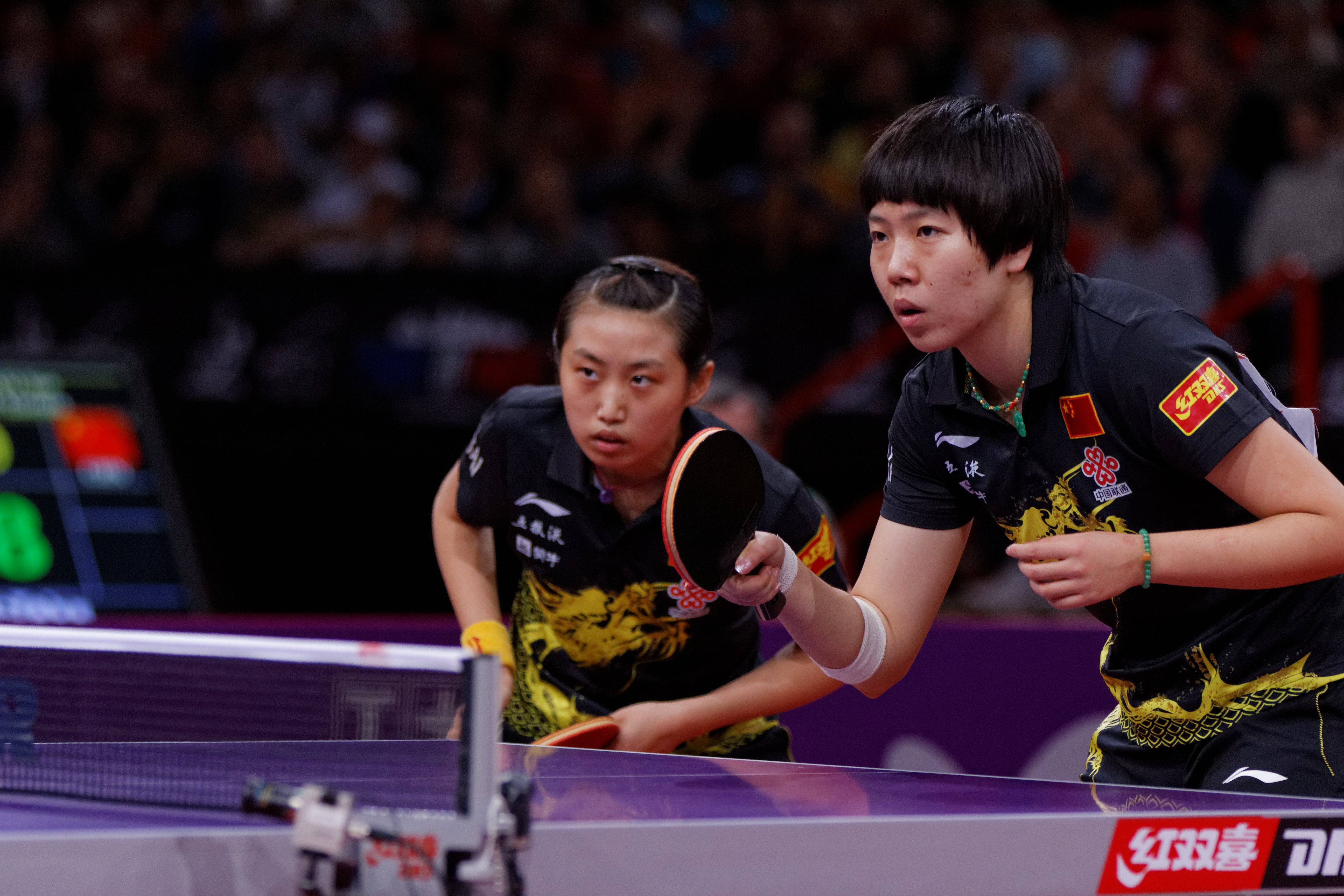 2013 World Table Tennis Championships, Paris. Women's Doubles Finals.